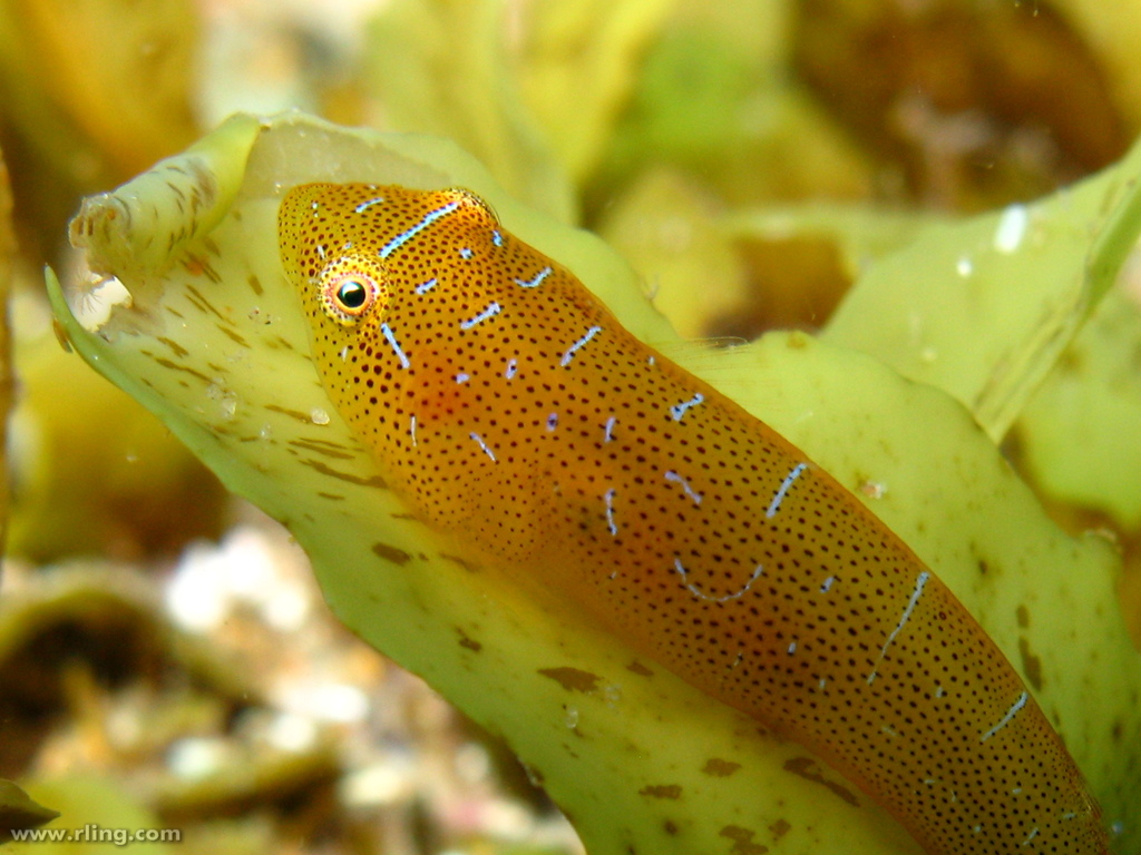 An Eastern Cleaner Clingfish (Cochleoceps orientalis) awaits a customer. Fairy Bower, Manly, NSW